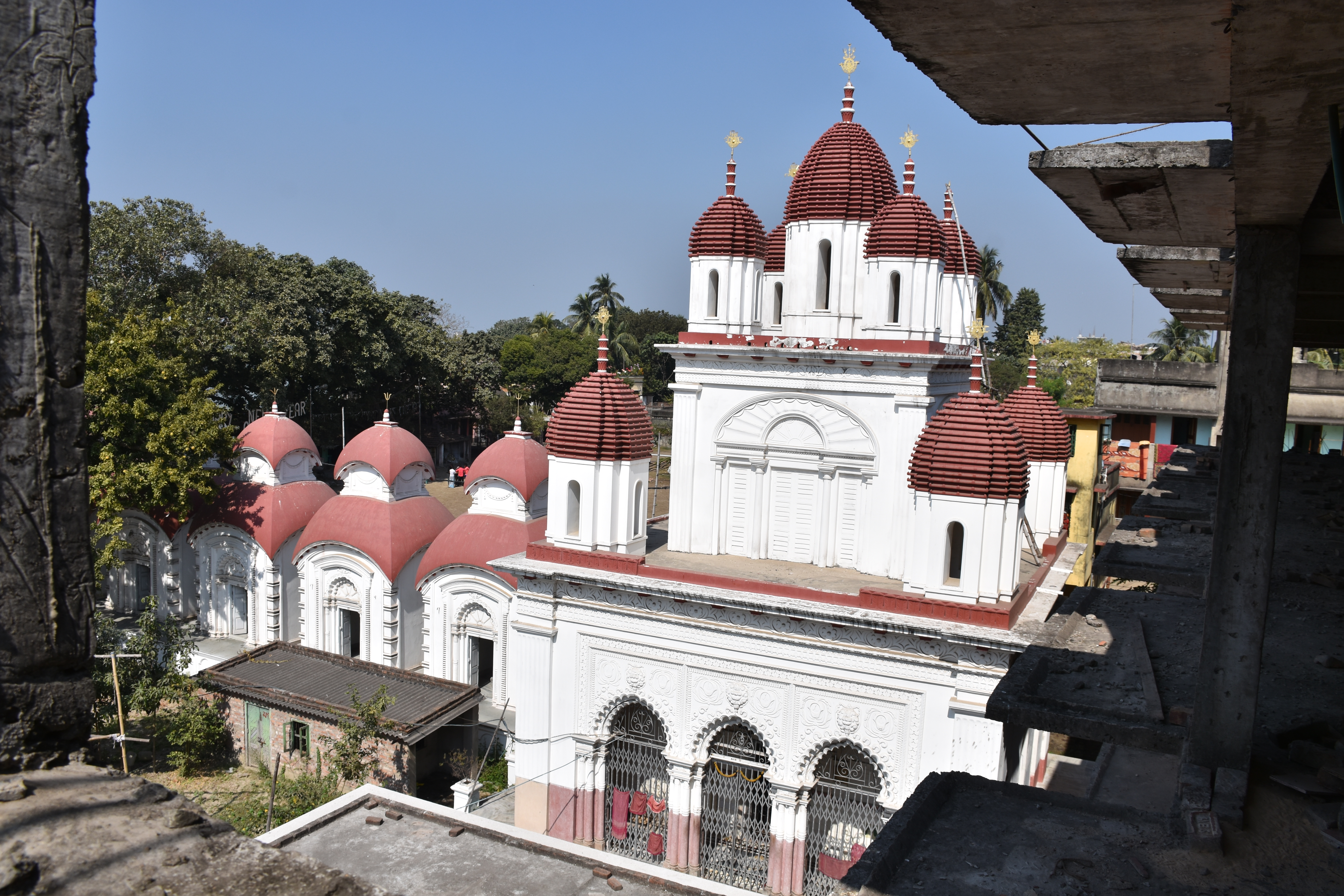 This Photograph was taken during Wikipedia Takes Kolkata VI Photowalk.